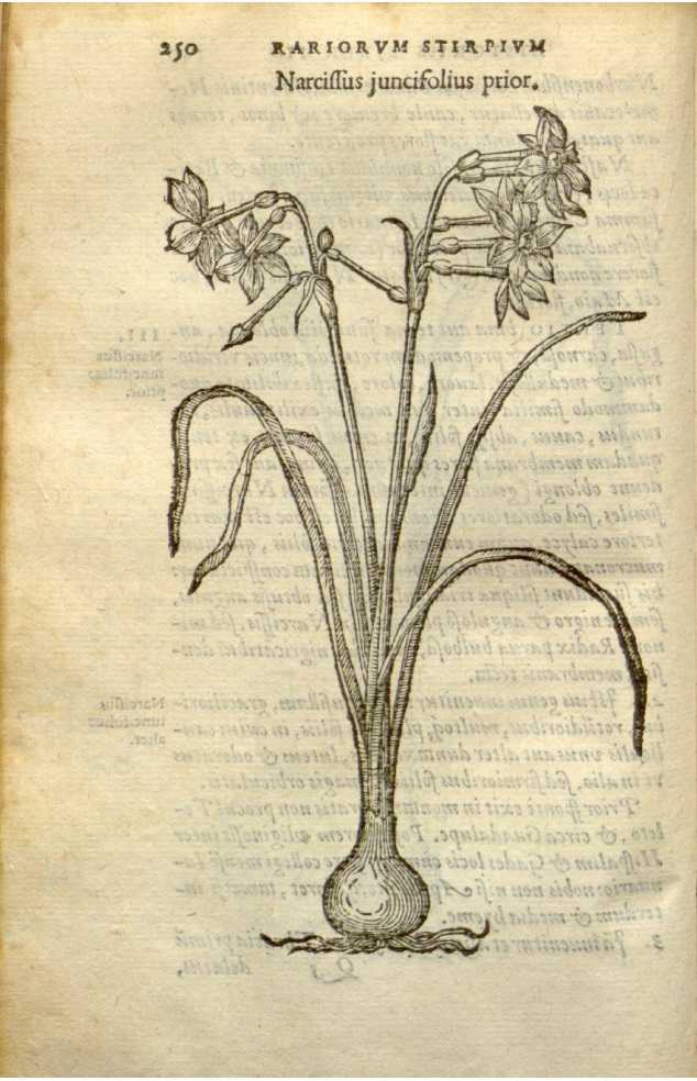 Narcissus juncifolius (N. jonquila), from Clusius "Rariorum Stirpium Historiae" 1576